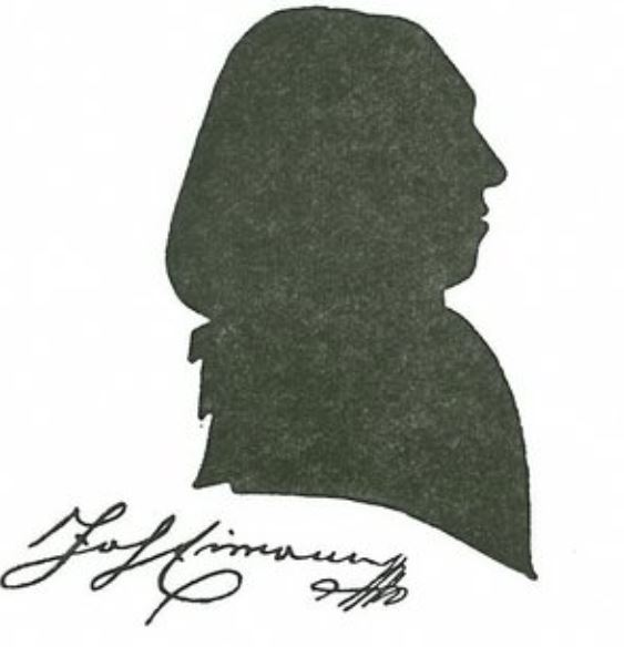 Settler in Batschka, silhouette portrait